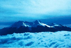 Image depicting Nevado del Huila. Public Domain Work US GOV agency USGS [1]